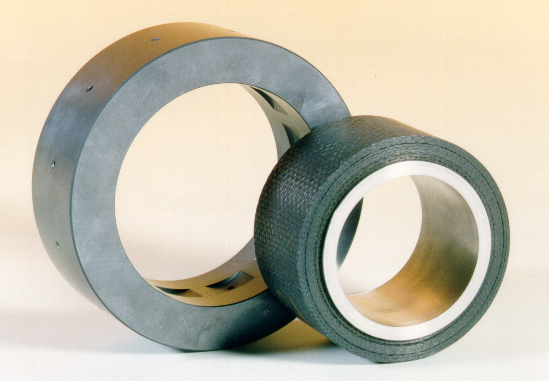 Concept of ceramic journal bearing: shaft sleeve ceramic matrix composite, journal bush conventional sintered silicon carbide (SSiC)